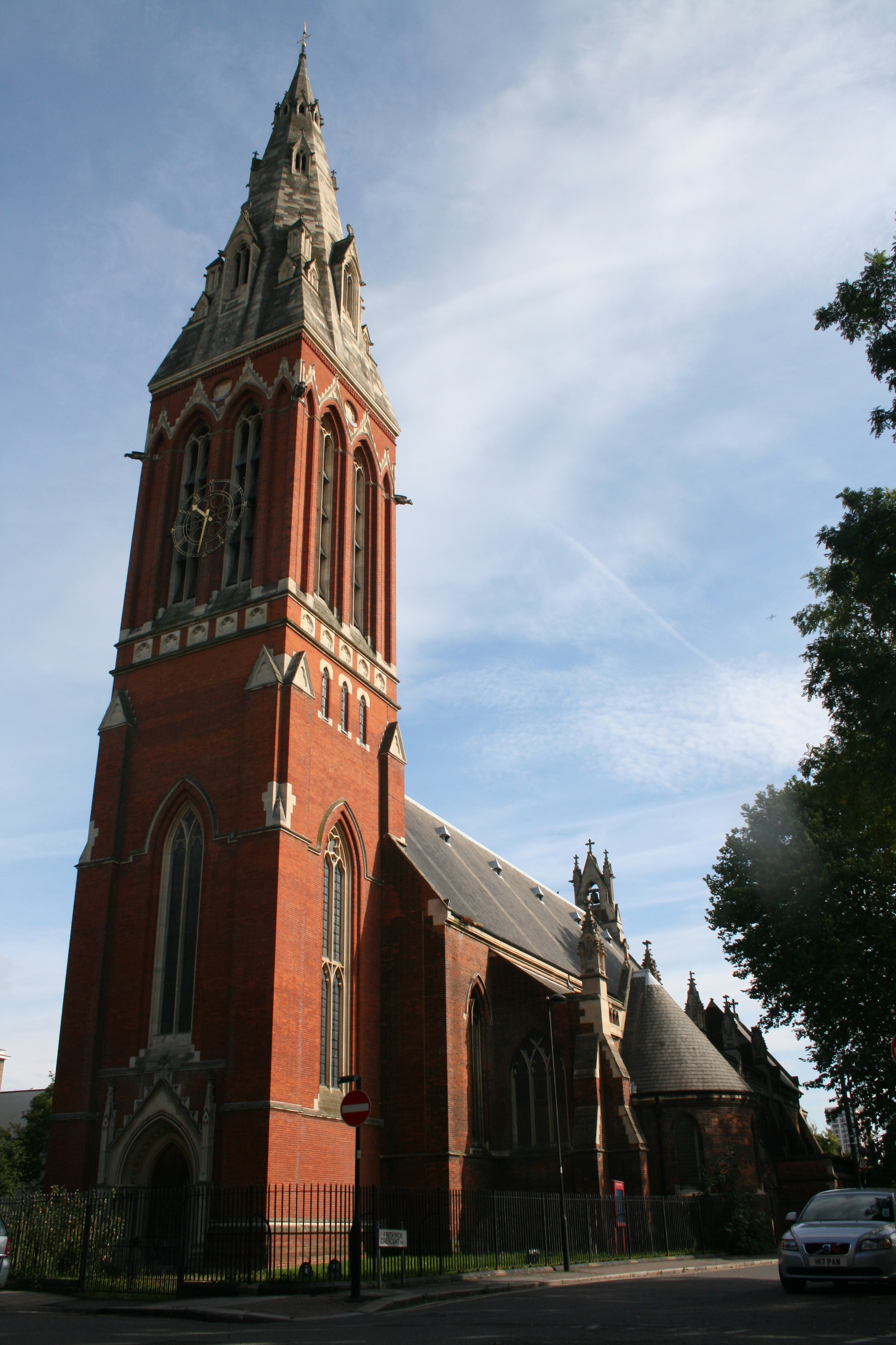 Saint John The Divine Kennington exterior view of tower through trees